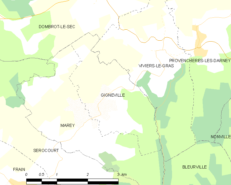 Map of French municipality Gignéville